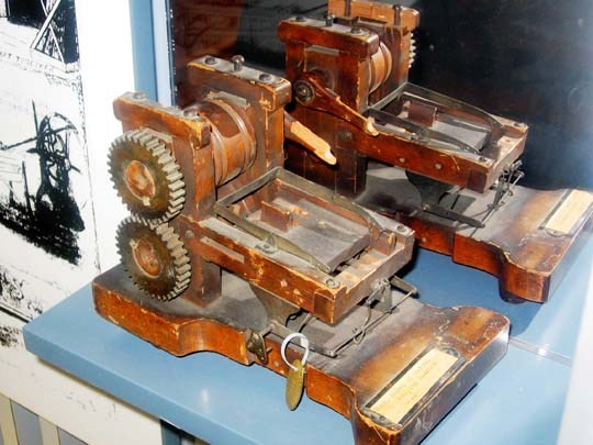 Improved and innovative methods of manufacture were constantly sought at Springfield Armory. This period model of a barrel rolling machine combines several steps in making a barrel. Note the enlarged indentation in the grooves which permitted shaping the squared breech while rolling the round barrel.